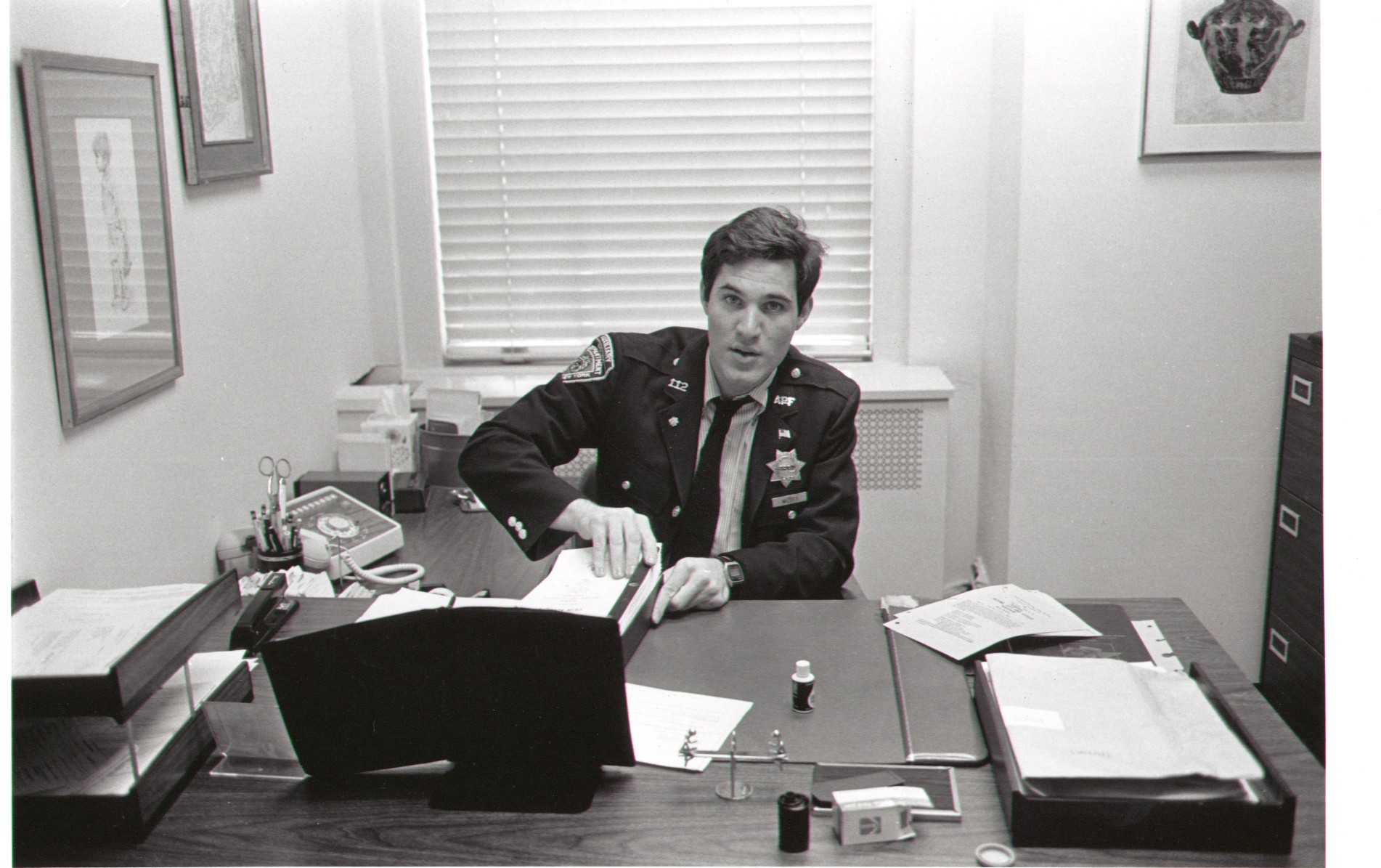 This is a picture of Michael Wildes when he was an Auxiliary Police Officer with the NYPD.